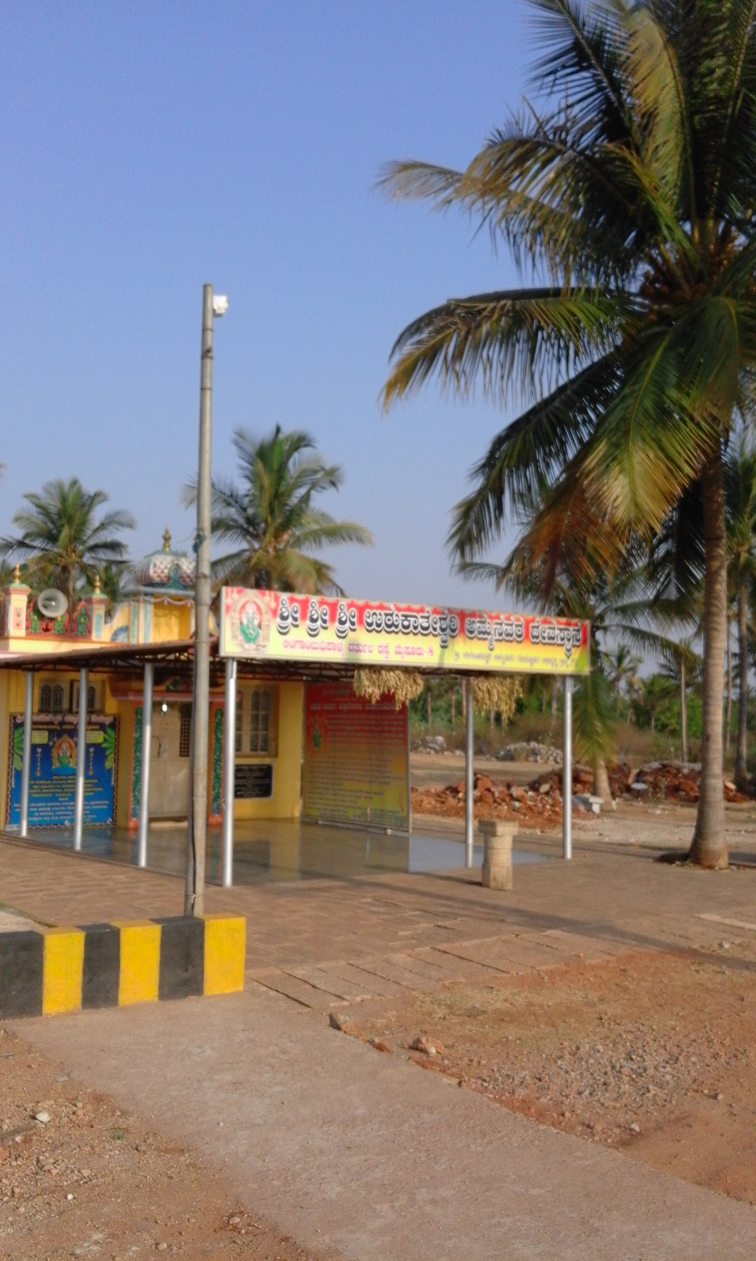 Lingam Budhi Lake, Mysore, India.